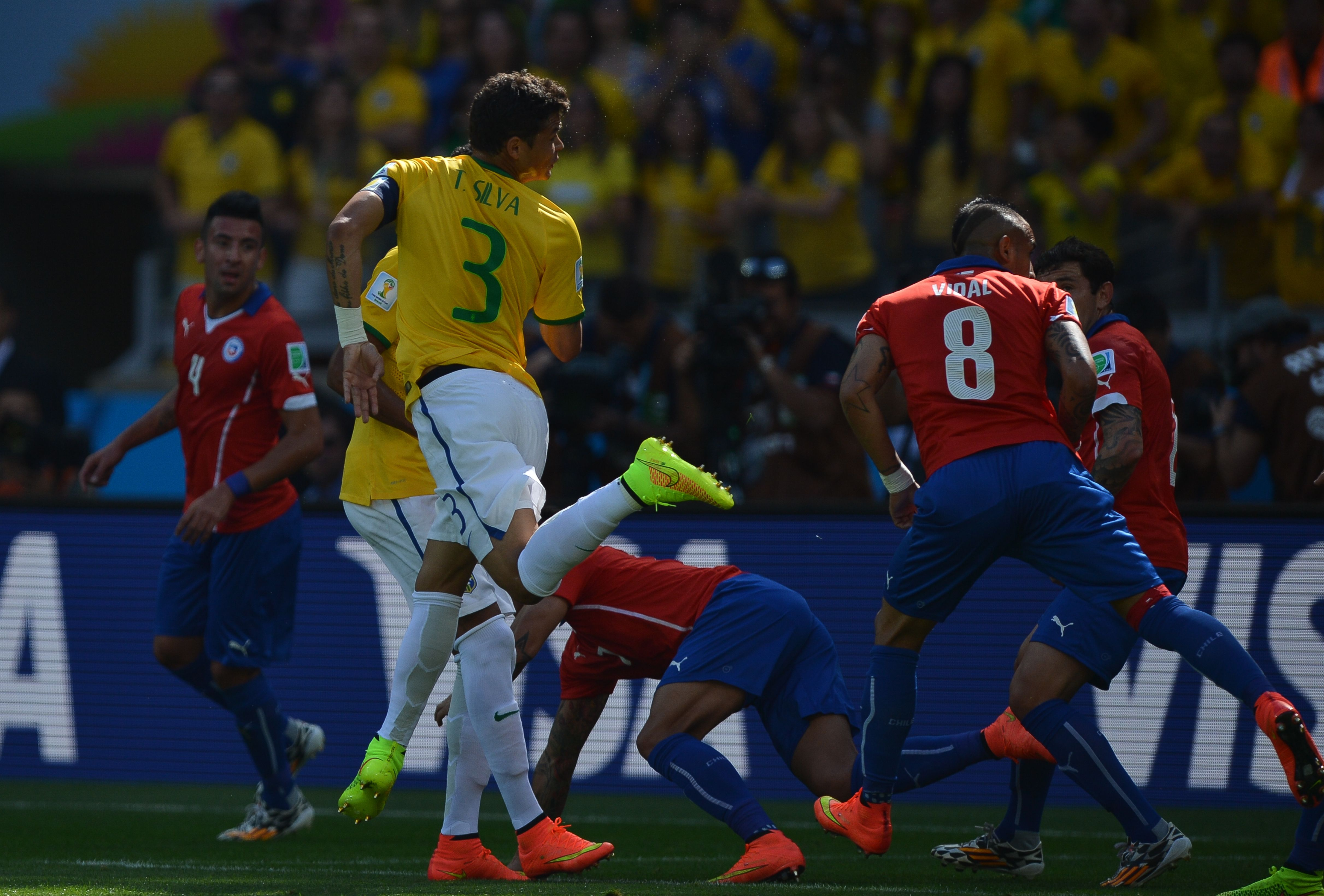 Brazil vs. Chile in Mineirão